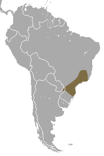 Brazilian Gracile Mouse Opossum (Gracilinanus microtarsus) range